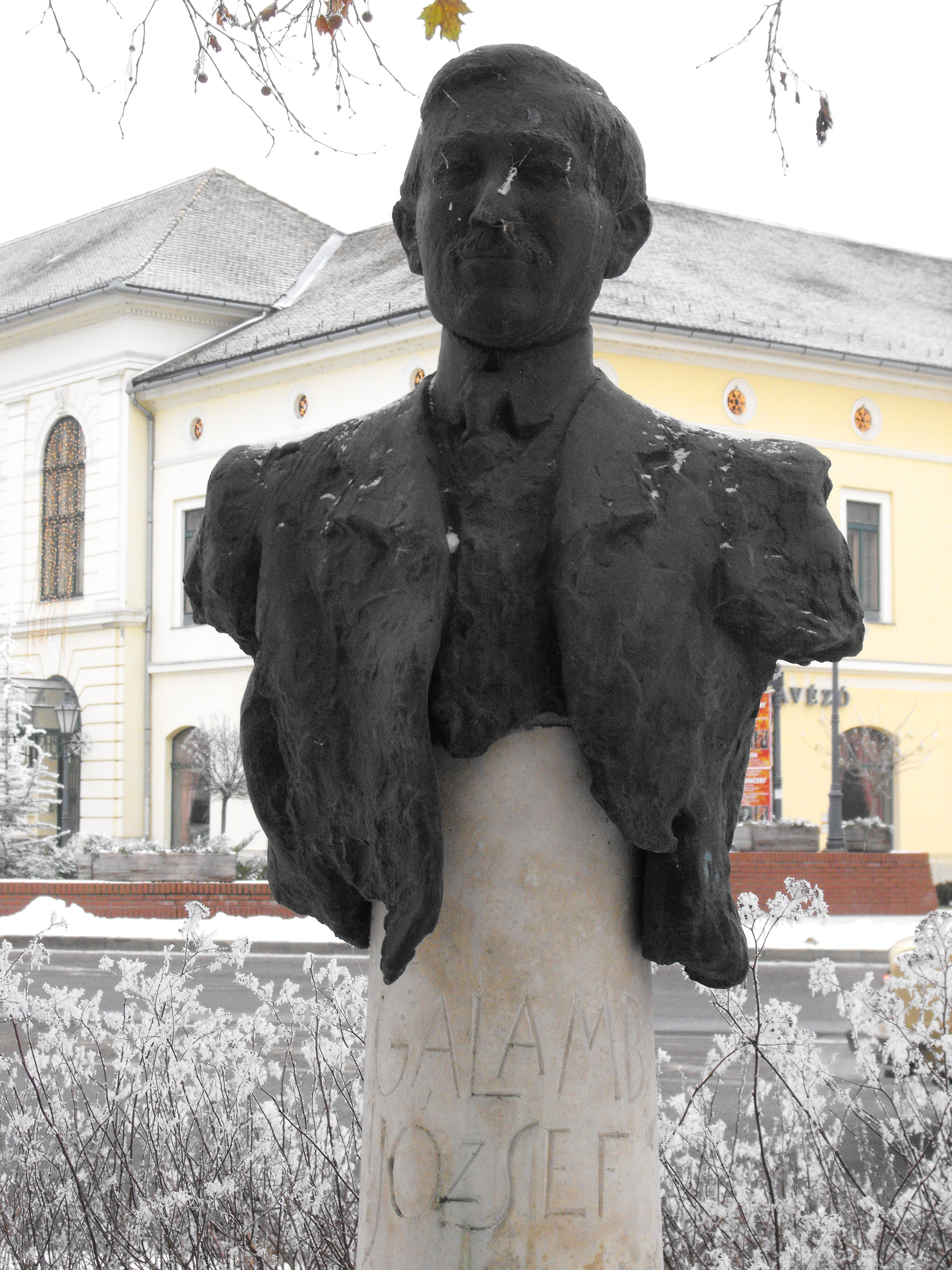 Statue of Joseph ("Joe") Galamb, engineer, designer of the Ford T-Modell in Makó, Hungary.